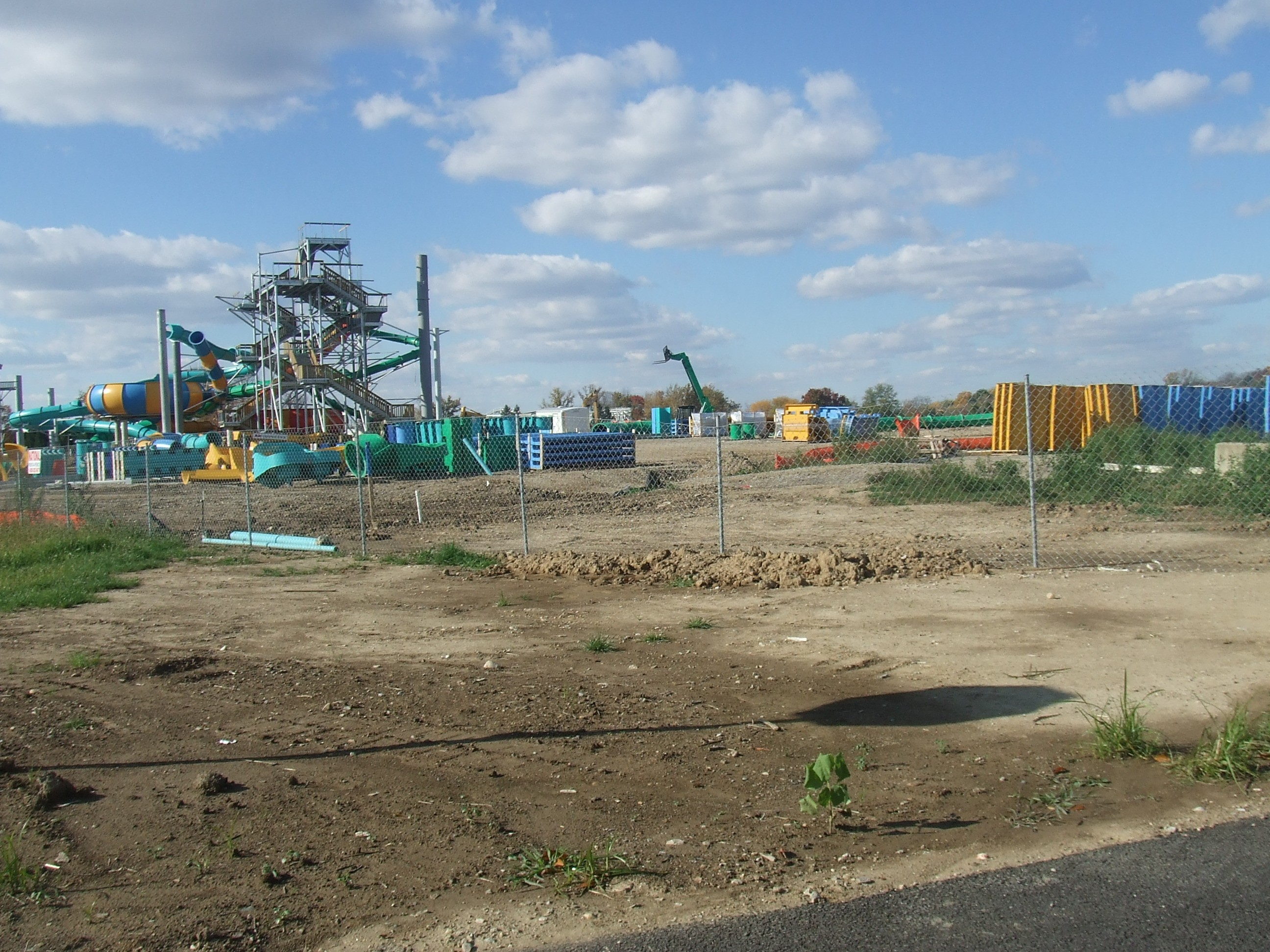 This is a picture taken in the fall of 2007 at Columbus Zoo's Zoombezi Bay water park. This shows the new park under construction